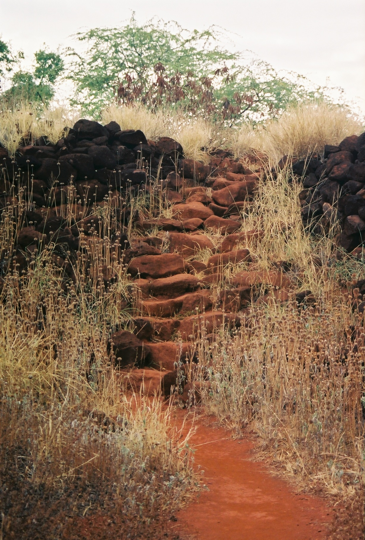 A staircase in the ruins of the Russian Fort Elizabeth on Kaua'i